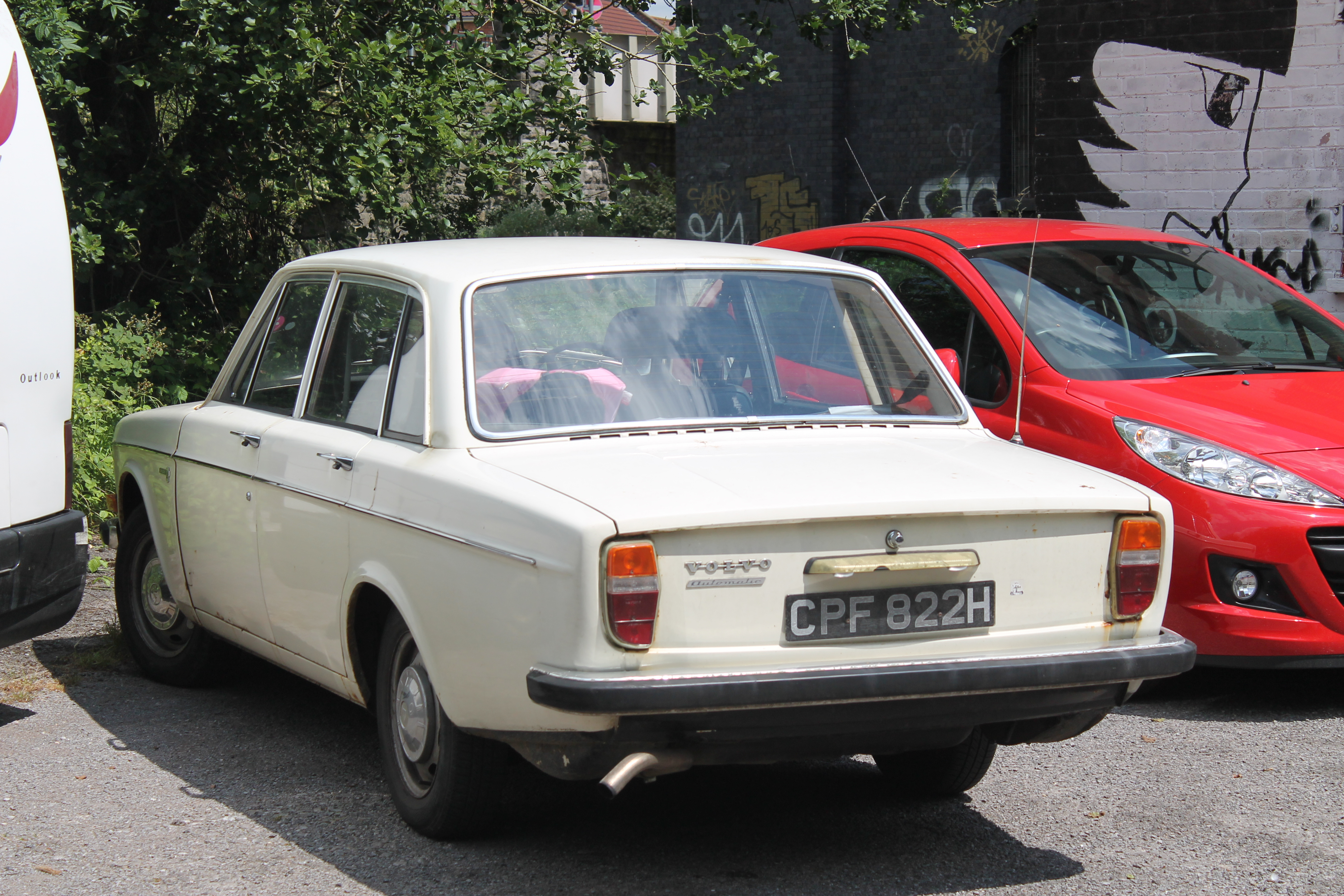 This day's spotting was extremely successful, this was a lovely car to find down by the river. It's a 1970 Volvo 144DL Auto, and looks very much the daily driver. Unfortunately it was rather hard to get a shot of the front, but still got a decent shot of the back. One of 15 DL Autos on the road. The vehicle details for CPF 822H are: Date of Liability 01 11 2014 Date of First Registration 15 05 1970 Year of Manufacture 1970 Cylinder Capacity (cc) 1986cc CO₂ Emissions Not Available Fuel Type PETROL Export Marker N Vehicle Status Licence Not Due Vehicle Colour WHITE Vehicle Type Approval Not Available